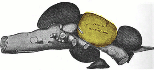 Drawing of the brain of a cod, with the "tectum mesencephale" (optic tectum; optic lobe) highlighted.